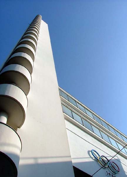 Helsinki Olympic Stadium tower 土岐銀次郎